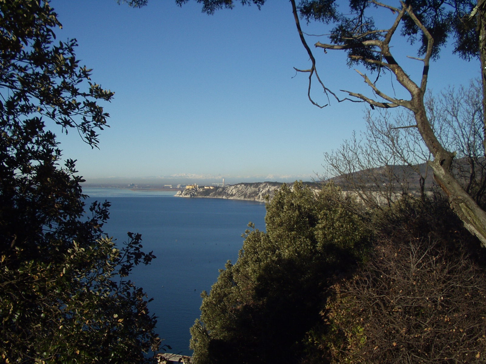 Sistiana: Northbound view (from Belvedere near Costa dei Barbari on the Costiera) of the coastline between Sistiana and Duino-Aurisina. In the far background: Snow-covered Alps.